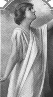 A white woman wearing a draped white cloth, in a dance pose with both arms extending out of the frame of the image.